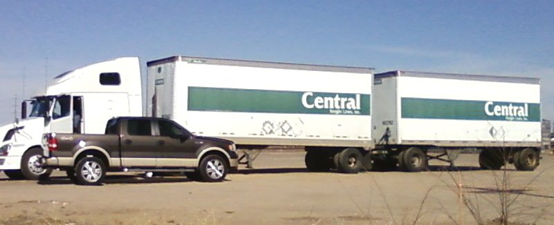 A Central Freight Lines truck parked in a vacant lot along Pecos St. in Adams County, Colorado.